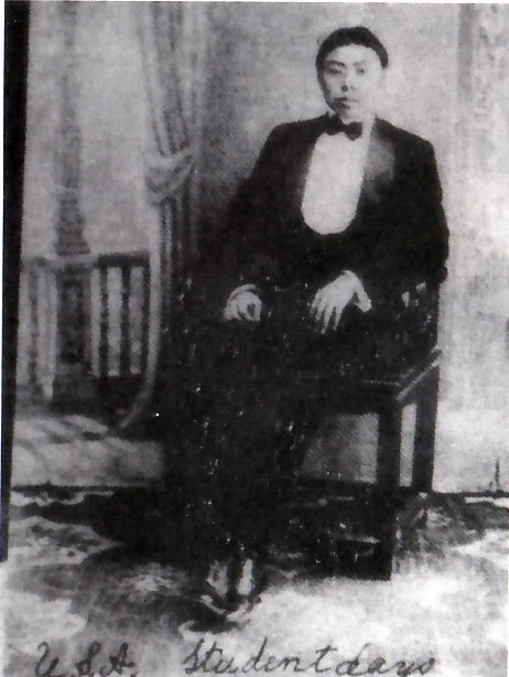 Yan Huiqing (Yen Hui-ch'ing;W. W. Yan), Junren (1877 - 1950) in U.S.A.